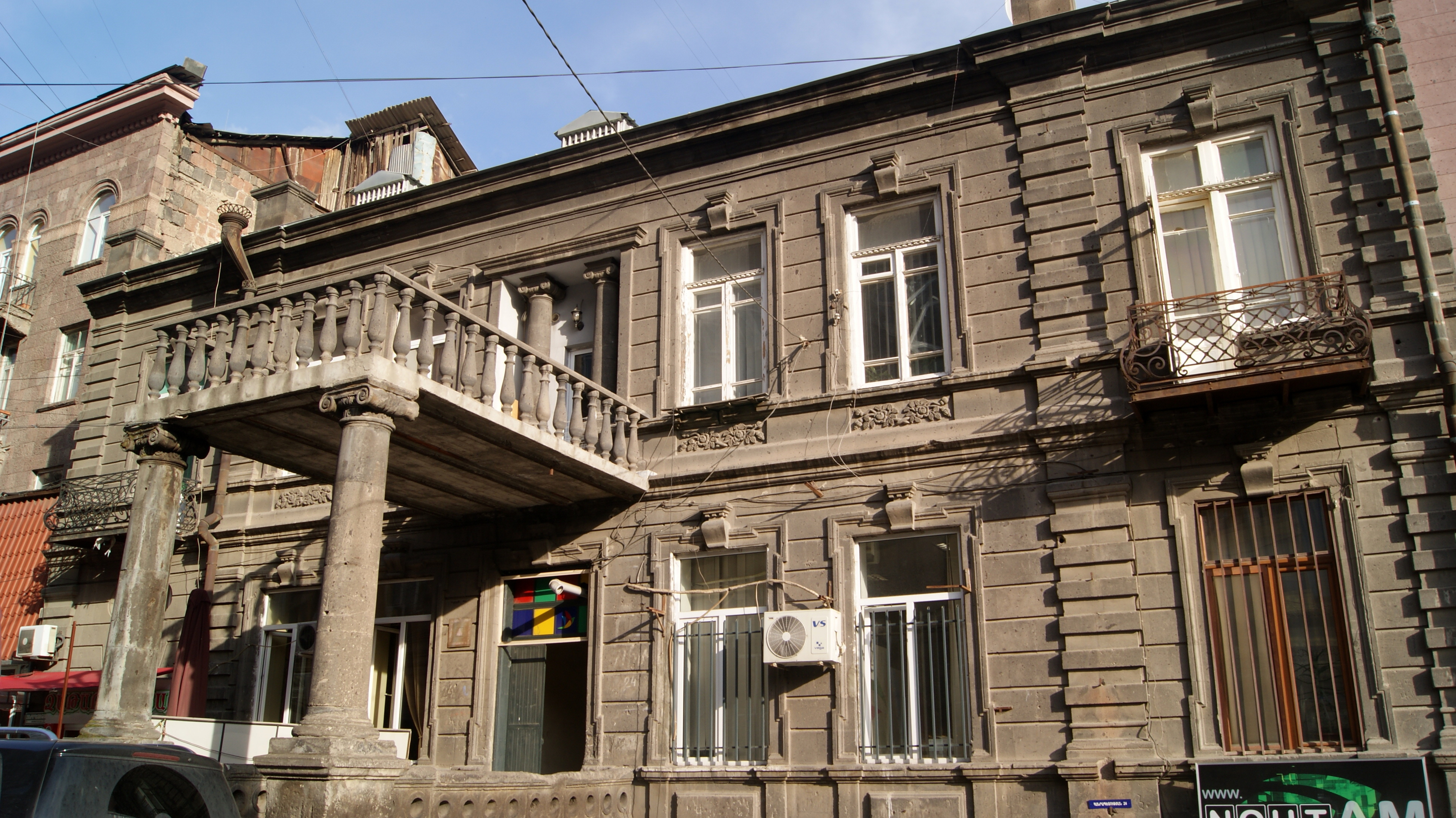 Buildings on Mher Mkrtchyan street, Yerevan